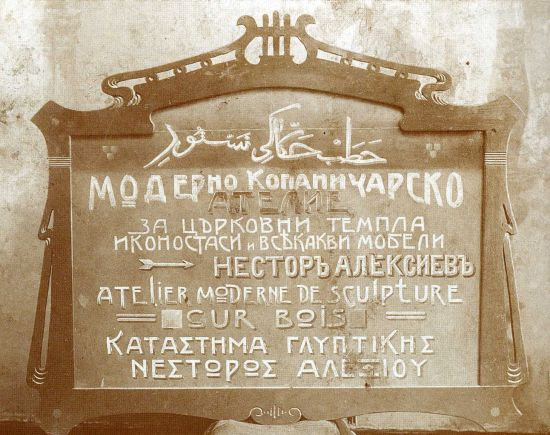 A board commercial for an atelier for sculptures in Bitola. In Bulgarian the owner is written as Nestor Aleksiev, and in Greek he is written Nestoros Aleksiou.